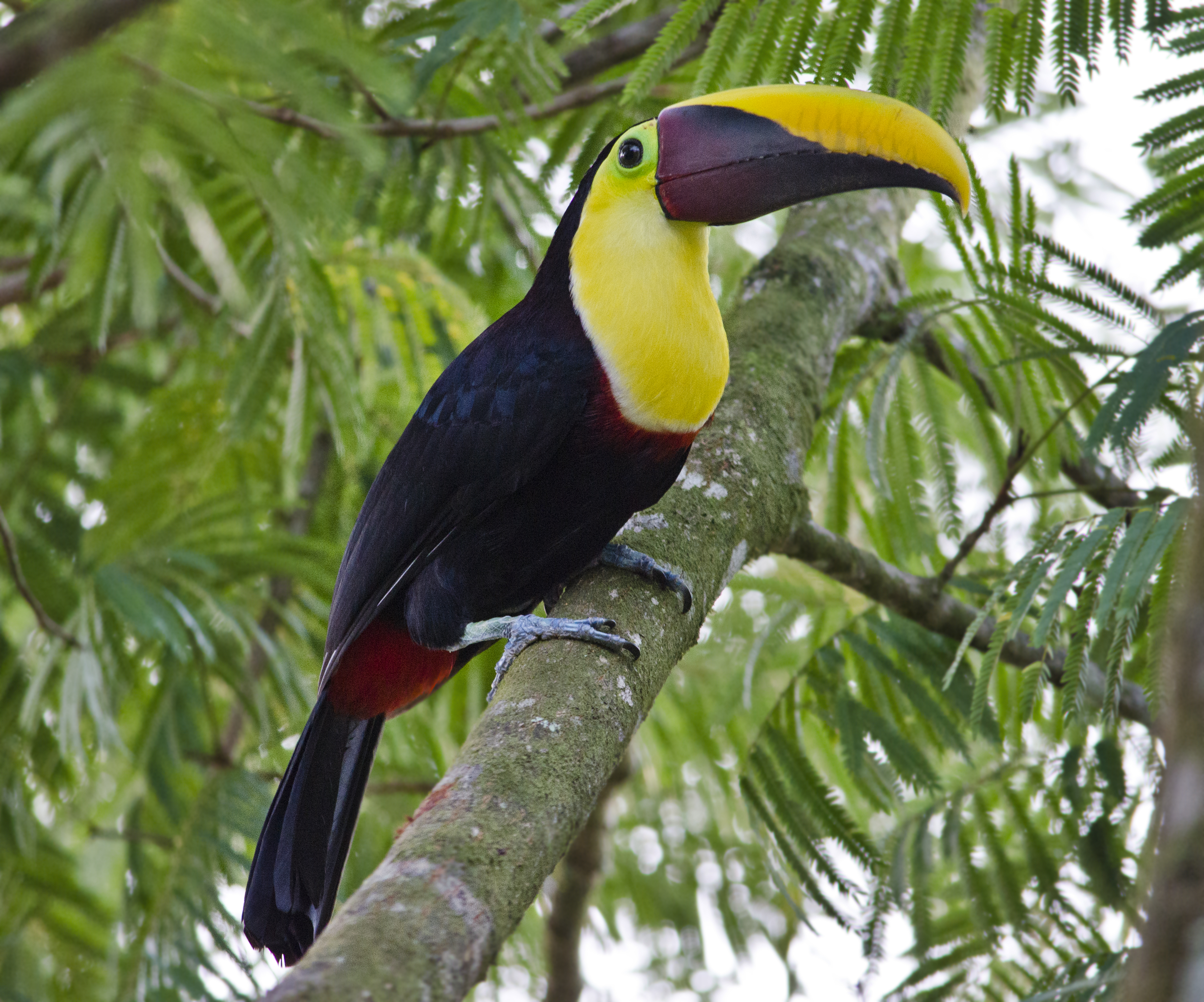 A Chestnut-mandibled Toucan in Costa Rica.